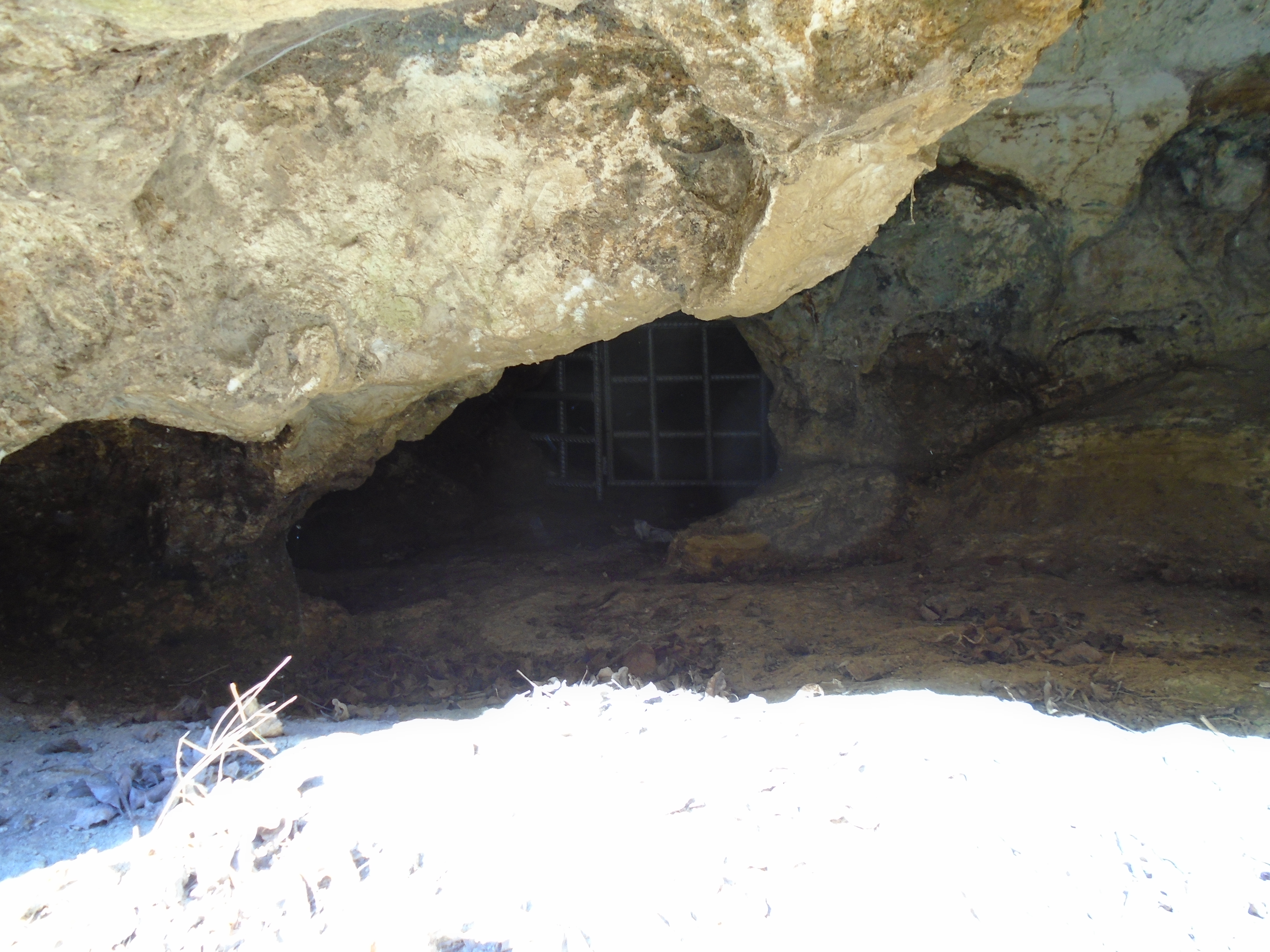 Entrance of Csókavári Cave in Üröm.